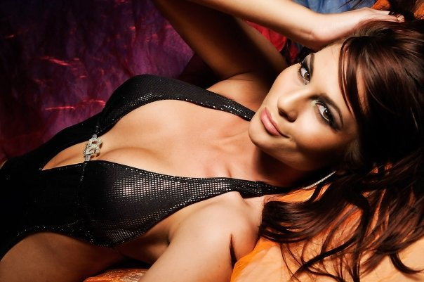 Dolce & Gabbana II, model: Zuzana Földesová.